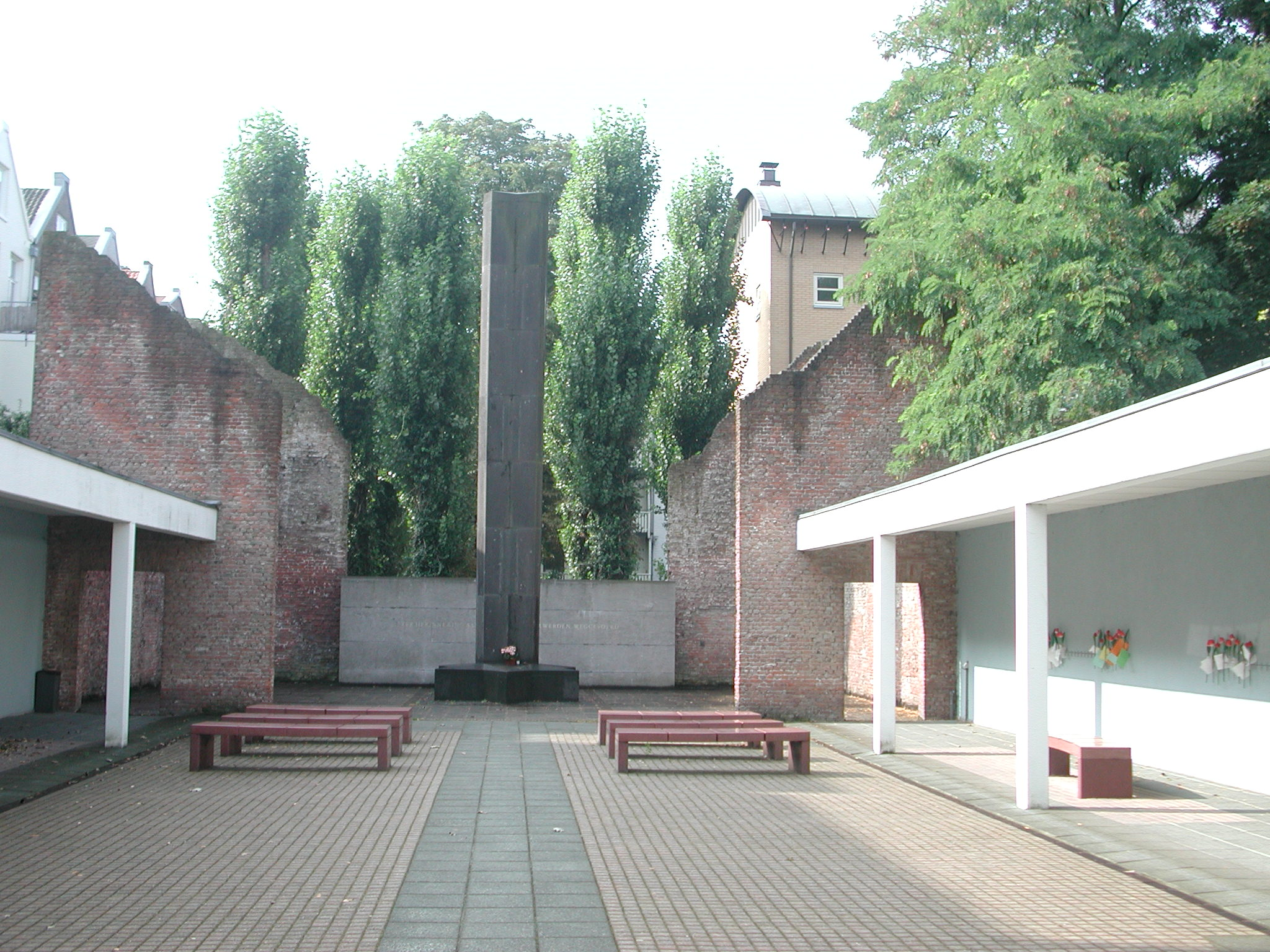 Inner court of the Hollandsche Schouwburg with the Jewish monument by Sem Hartz and L.H.P. Waterman placed in 1961.